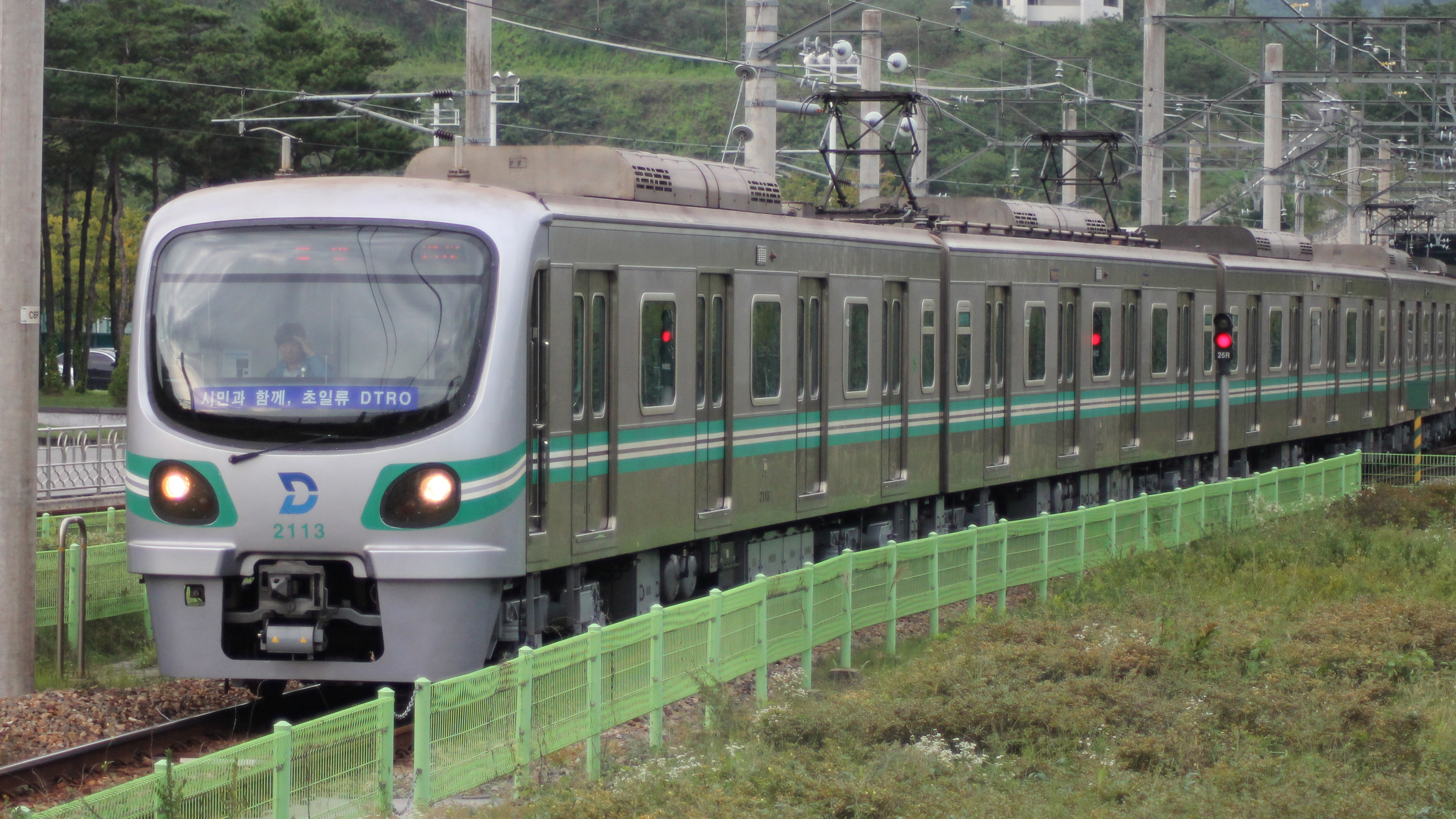 A train unit of Daegu Metro(DTRO) Line 2